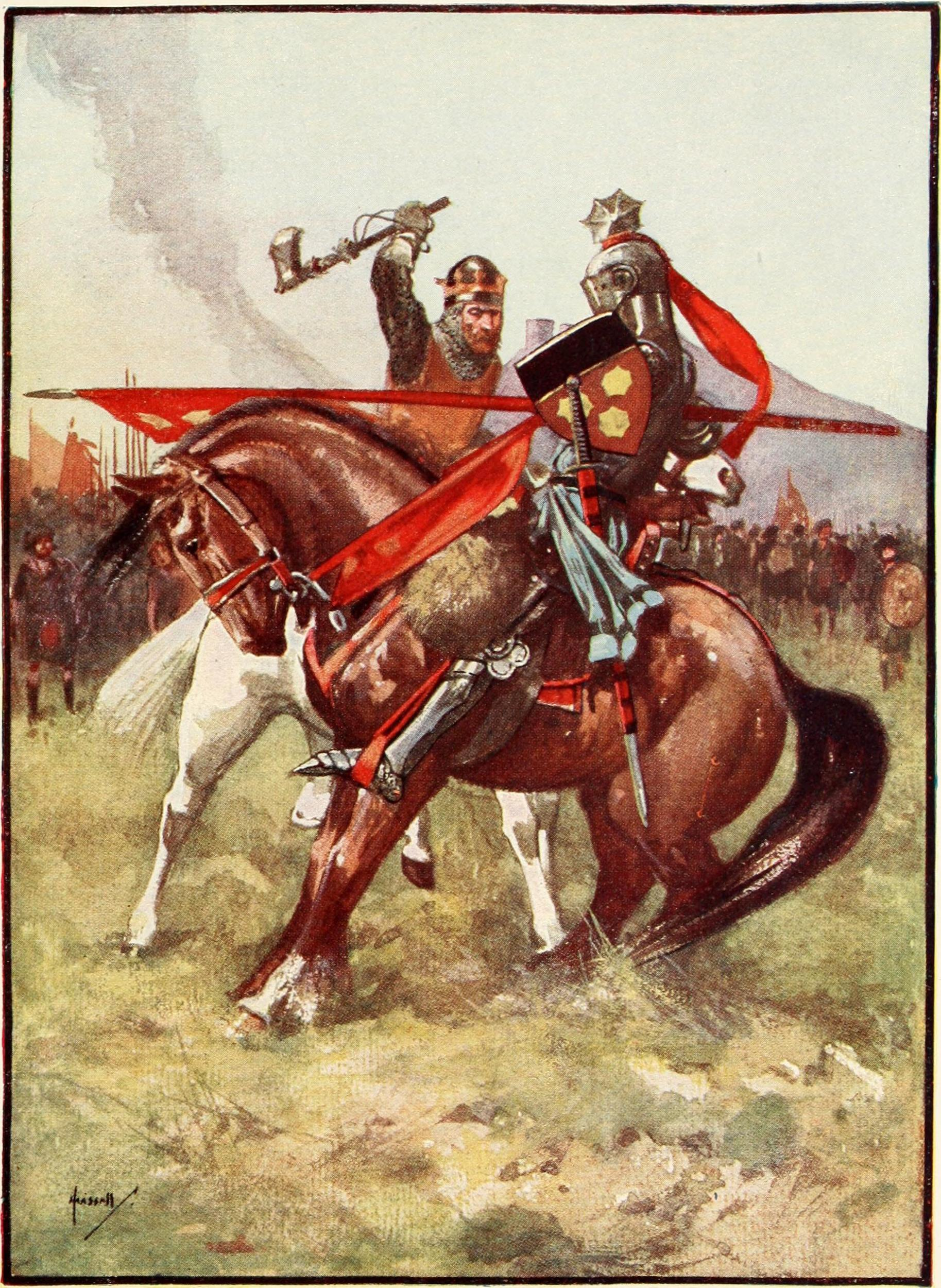 Scotland's story : a history of Scotland for boys and girls by Marshall, H. E. (Henrietta Elizabeth), b. 1876 Published 1907 SHOW MORE List of Kings from Duncan I.: p. 419-421 Publisher London : T.C. & E.C. Jack Pages 496 Possible copyright status NOT_IN_COPYRIGHT Language English Digitizing sponsor MSN Book contributor New York Public Library Collection newyorkpubliclibrary; americana Full catalog record MARCXML [Open Library icon]This book has an editable web page on Open Library.